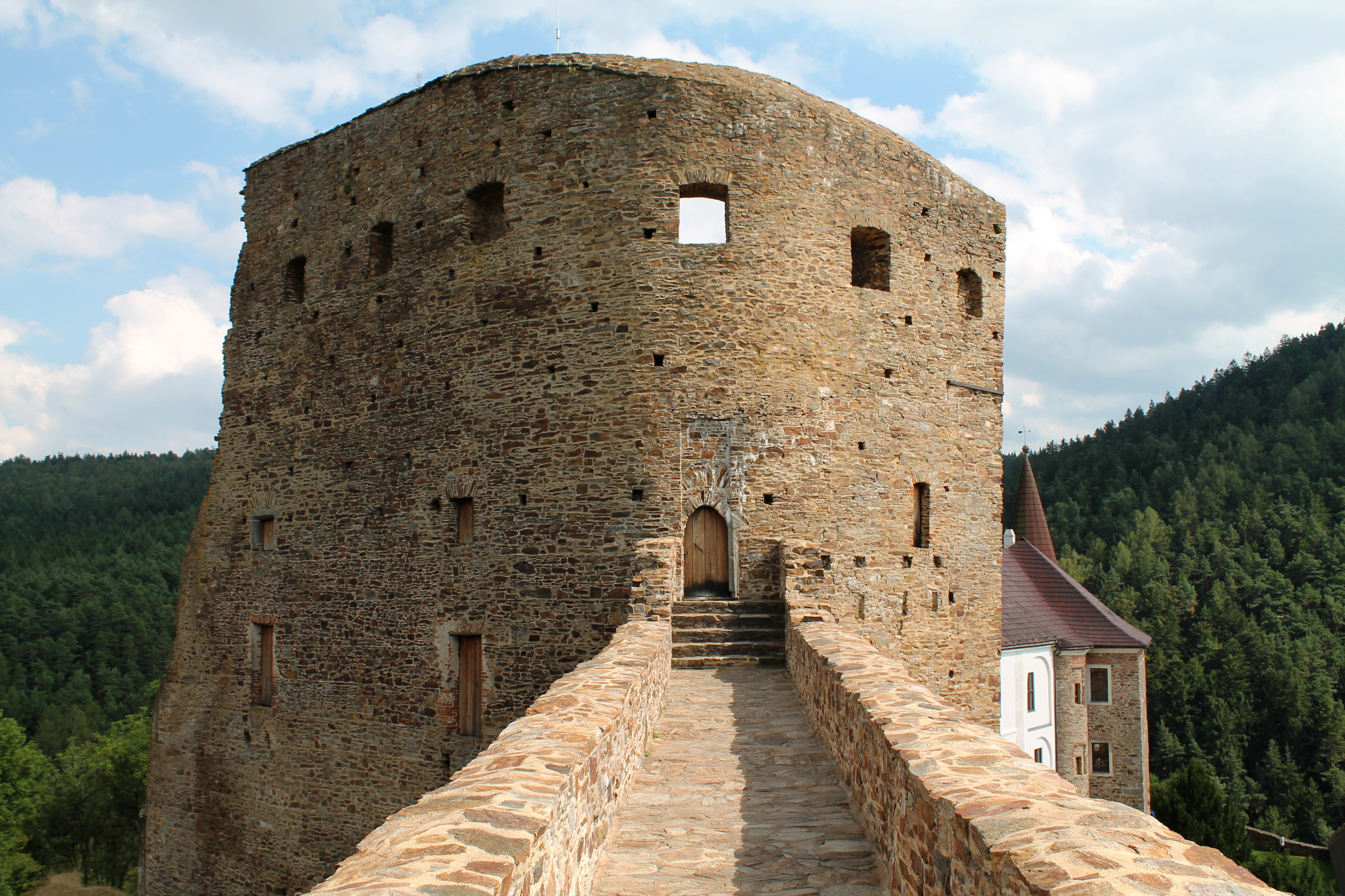 Velhartice castle, Klatovy District, Czech Republic - Google Maps - Google Earth